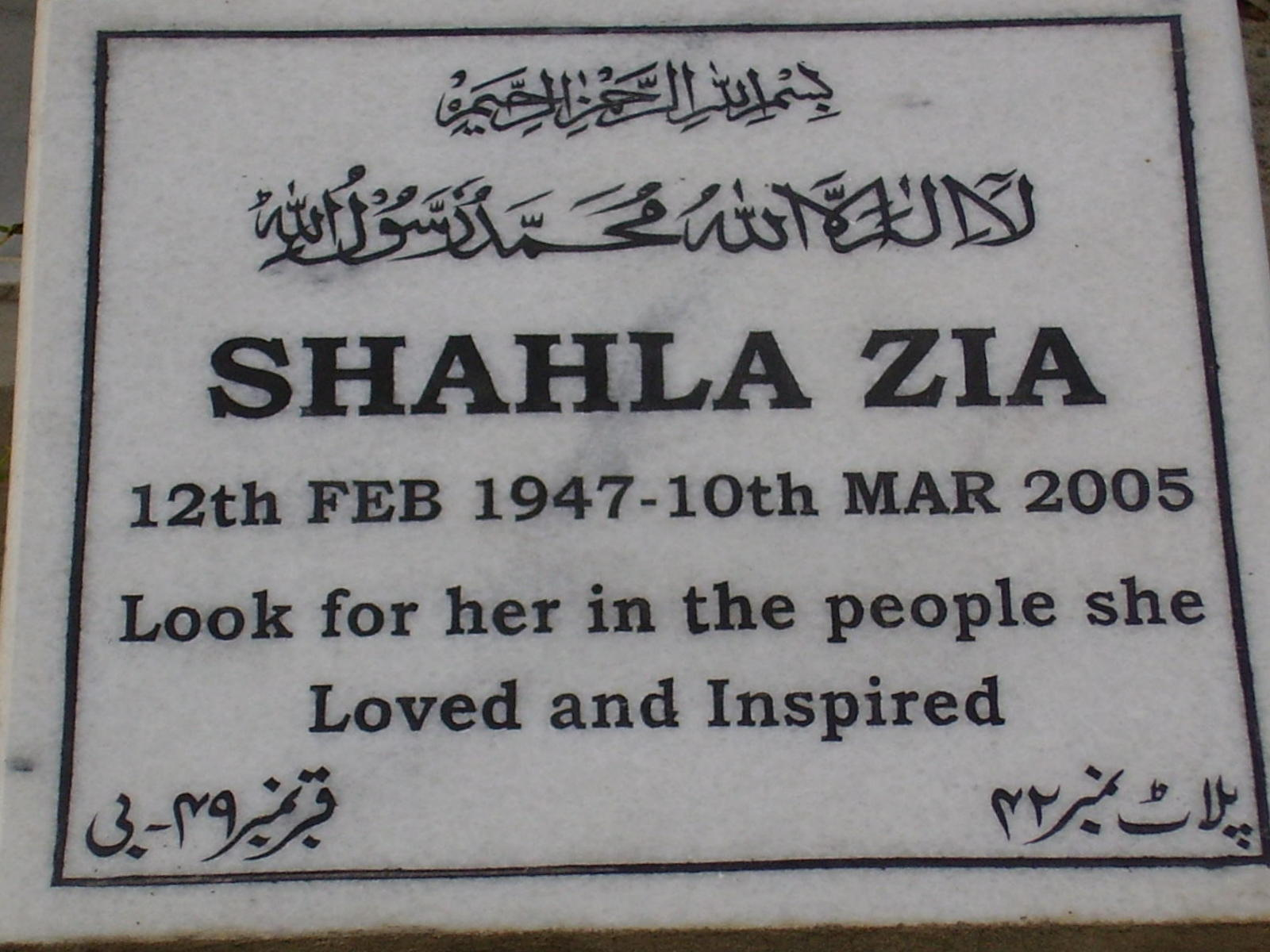 Gravestone of Shahla Zia at Islamabad Graveyard. Inscription reads: "Shahla Zia, 12th Feb 1947 - 10th Mar 2005. Look for her in the people she Loved and Inspired".